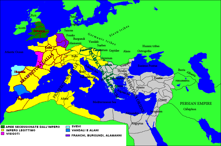 Western Roman Empire in 421.